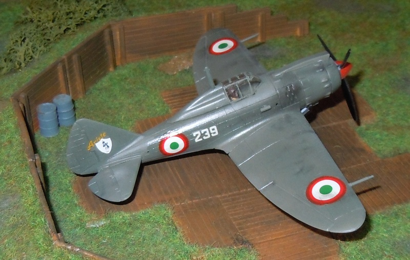 Model photo Reggiane Re.2002. This and more pics of the same are now on